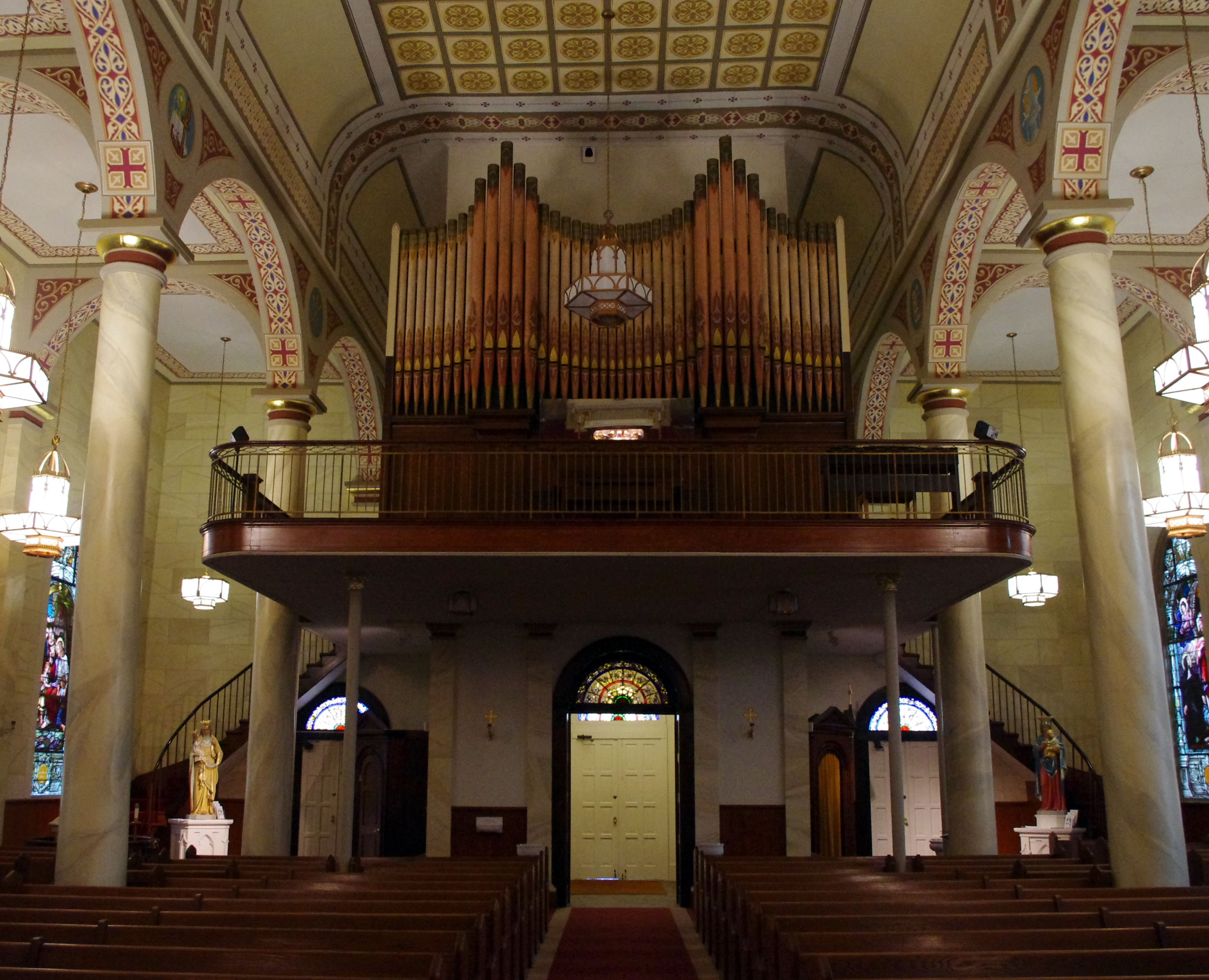 St. Francis Xavier Basilica (Vincennes, IN) - interior, rear of nave, organ